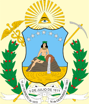 Arms of the state of Bolivar, VE